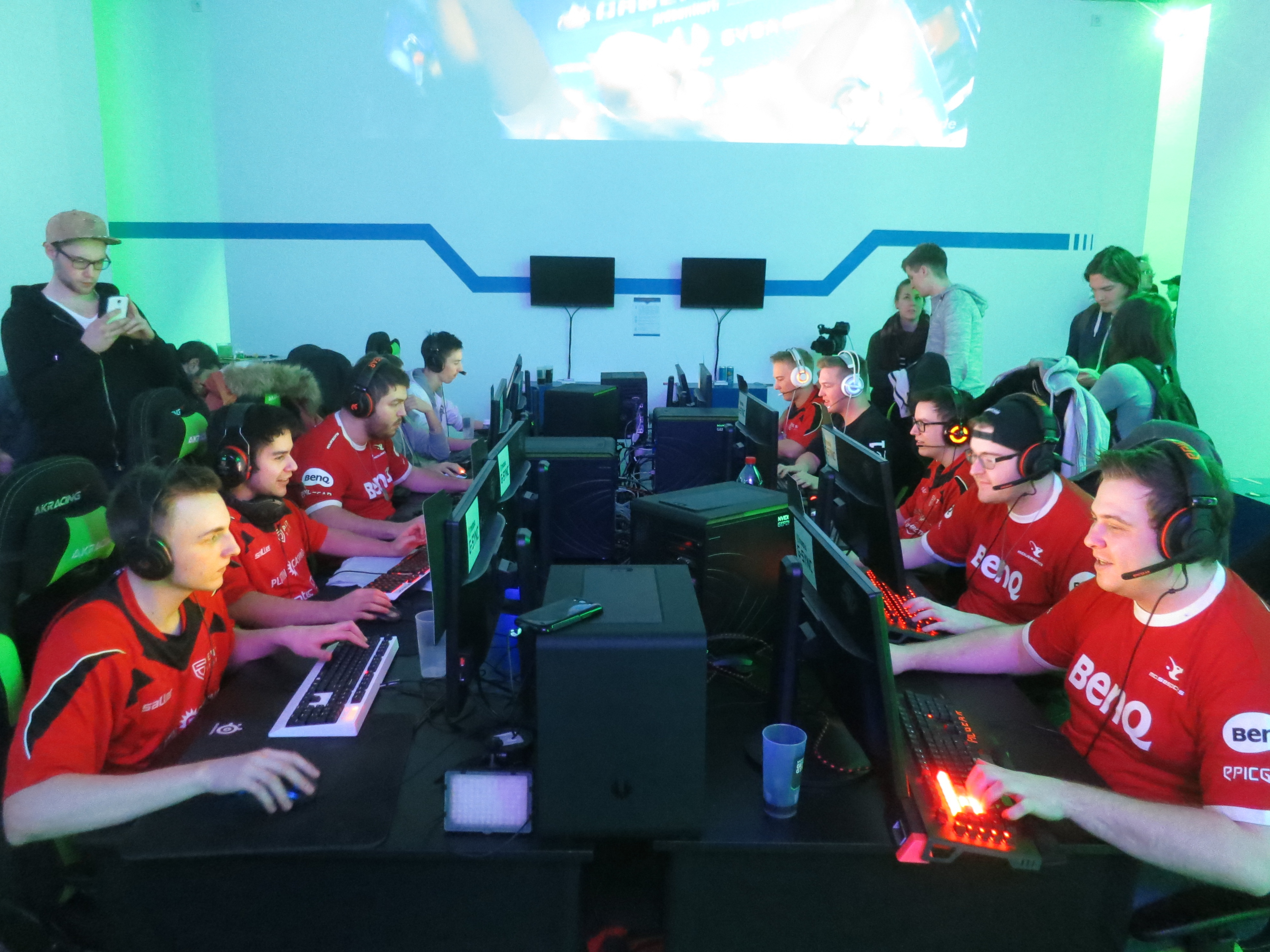 GeForce GTX AllStar Tournament